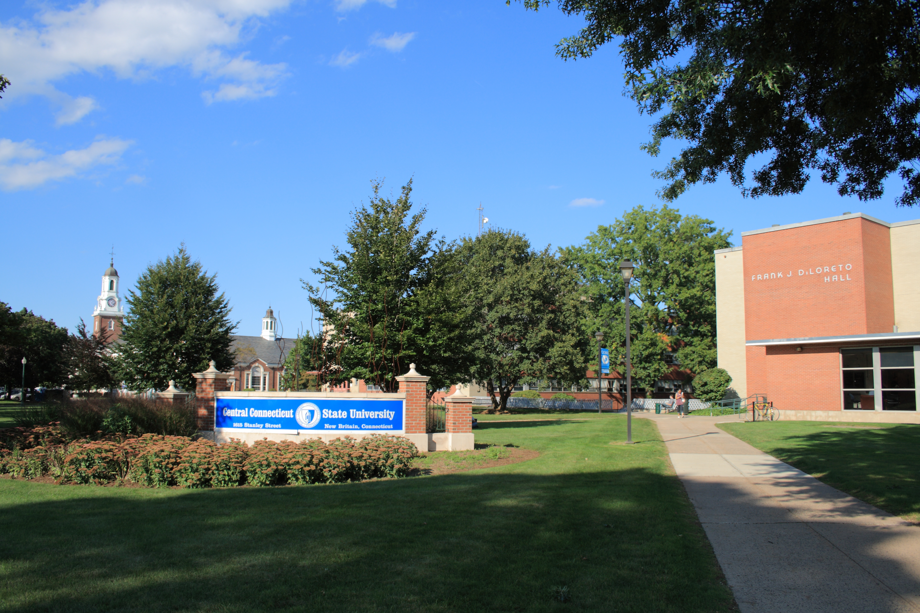 The southwest corner of the Central Connecticut State University campus in New Britain, Connecticut